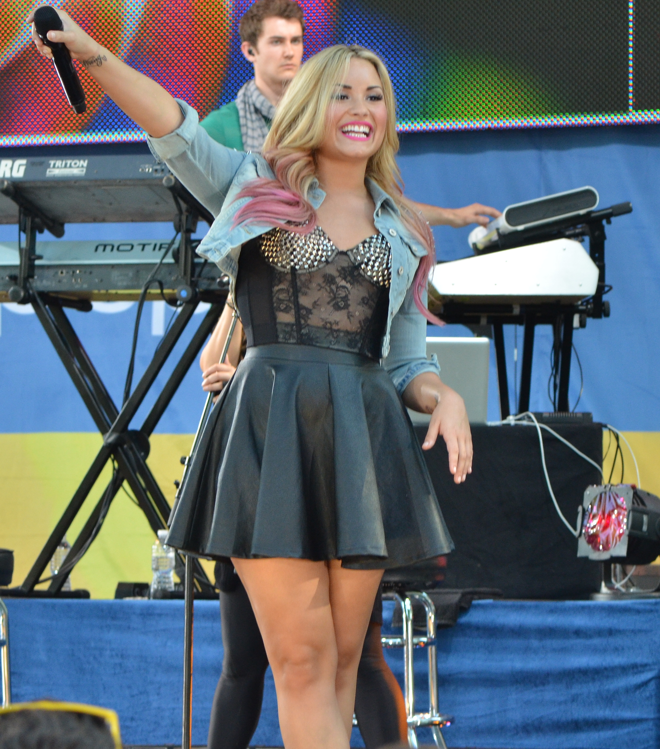 Demi Lovato performing Good Morning America, Summer Concert Event 2012.